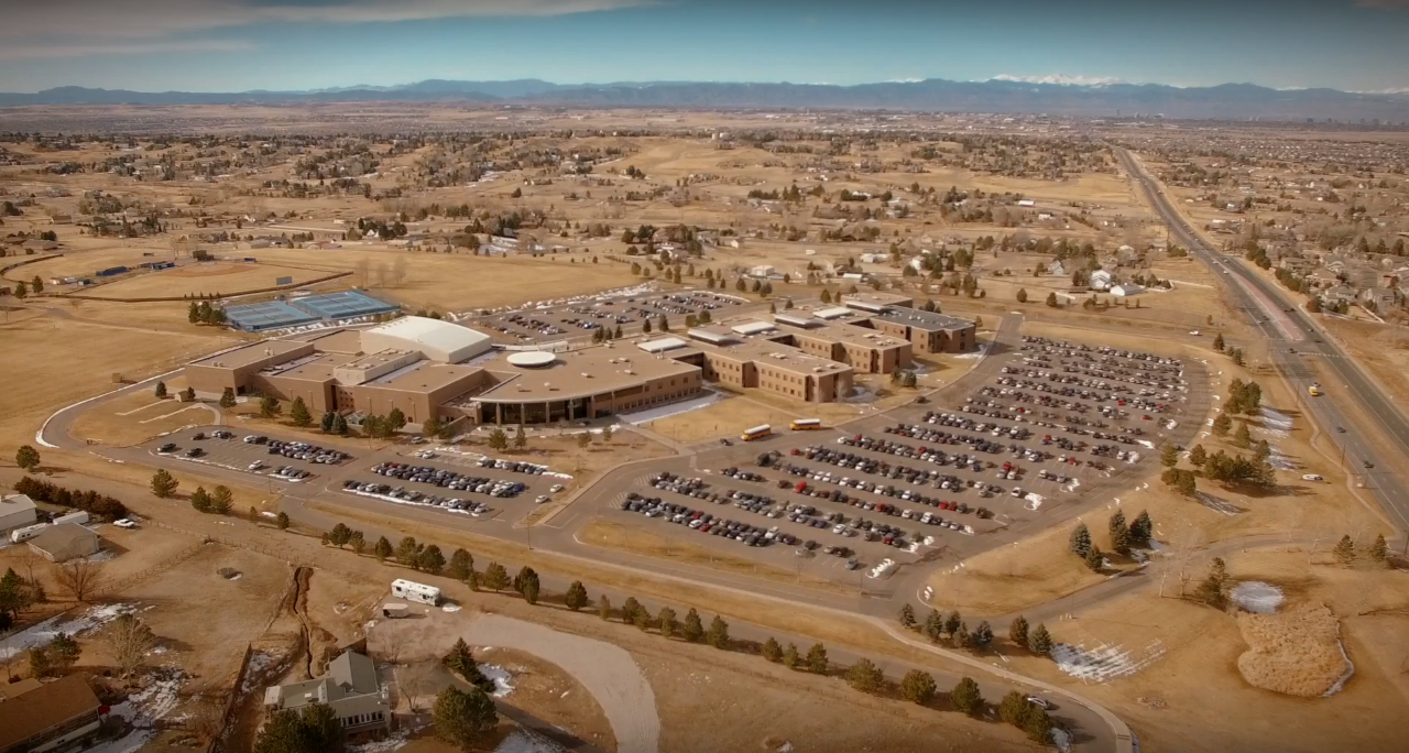 Aerial Photo of Grandview High School in January, 2017